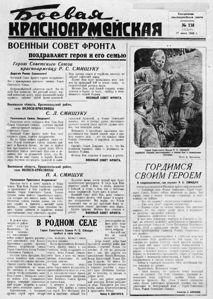 “Issue of newspaper "Battle Red Army" of 52nd Army from June 17, 1944”. Photo reproduction. The issue of the newspaper "Battle Red Army" of the 52nd Army from June 17, 1944 with an article about the feat of Hero of the Soviet Union Roman Smishchuk. The Great Patriotic War of 1941-1945.